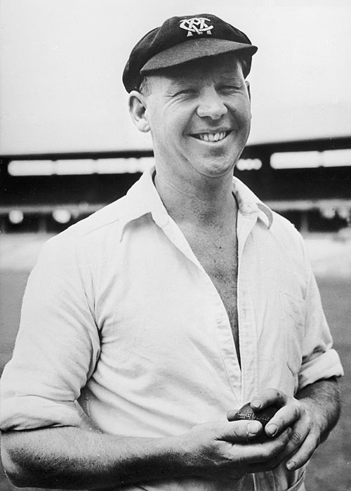 Australia Test cricketer Doug Ring playing for Victoria against South Australia